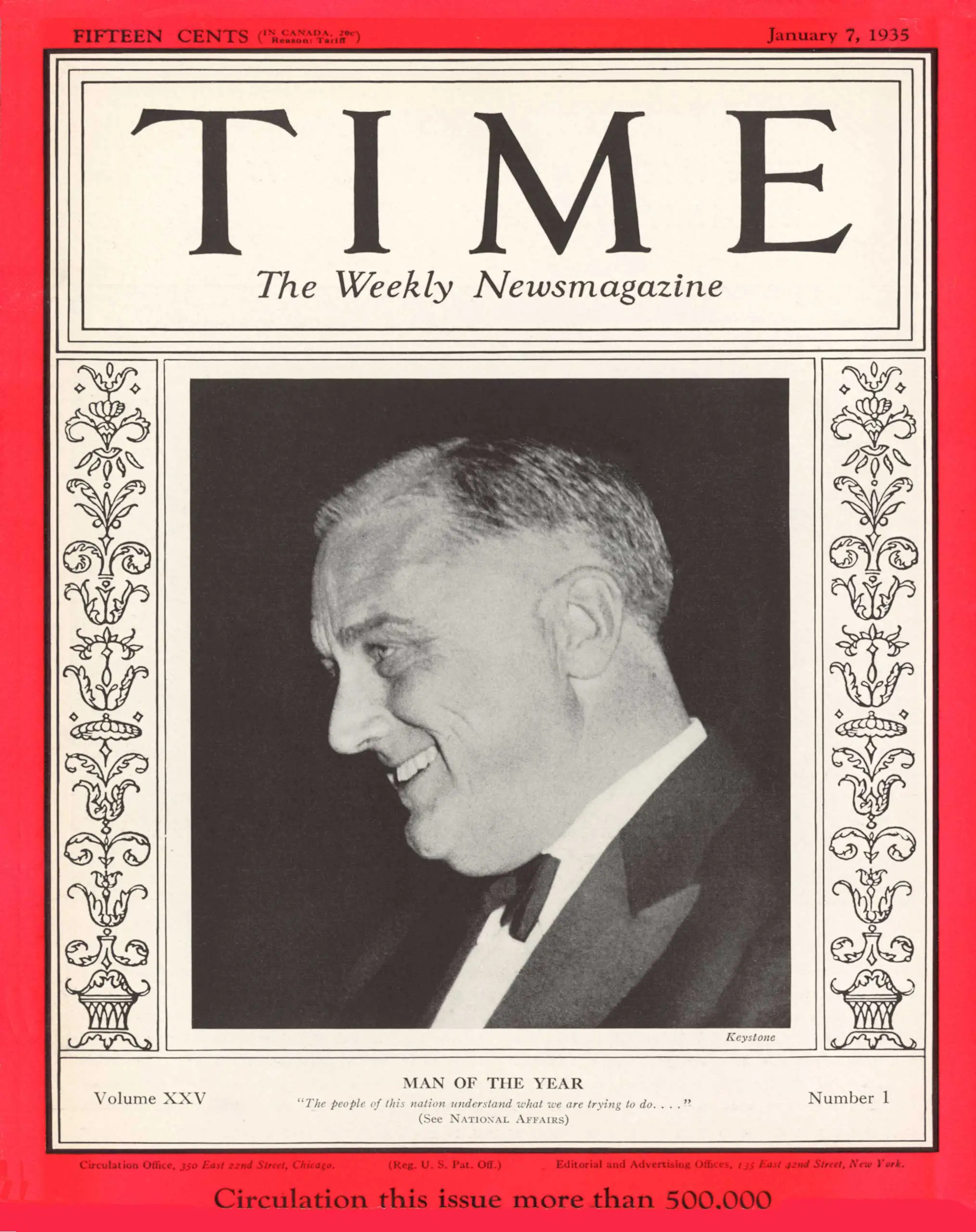 President Franklin D. Roosevelt on Time cover 1935.